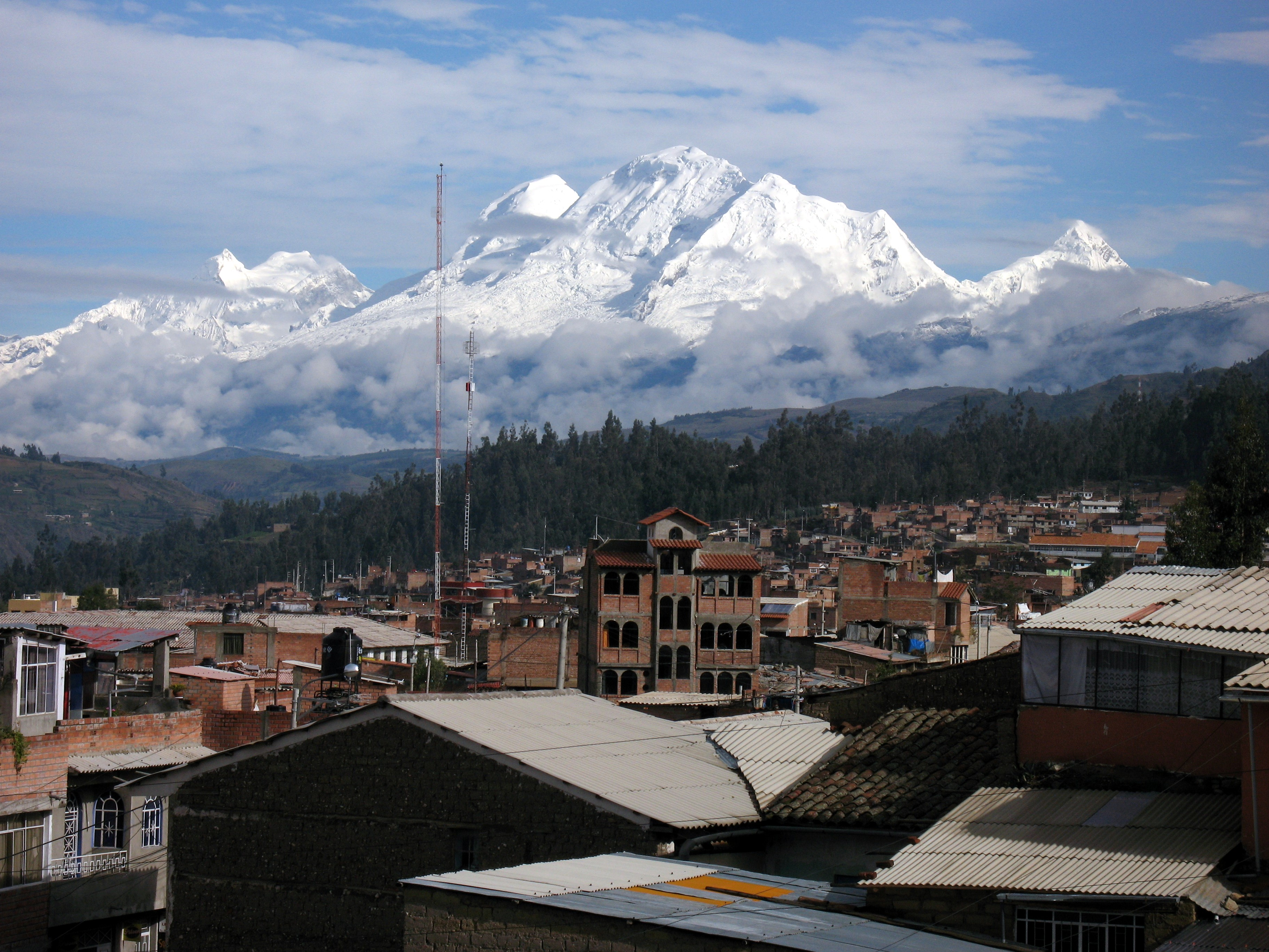 Looking north over Huaraz (3100 m) towards the highest region of the Cordillera Blanca. From left to right Nevado Huandoy (6395 m), Nevado Huascaran (6768 m) and Nevado Chopicalqui (6354 m). Distance 50 km.